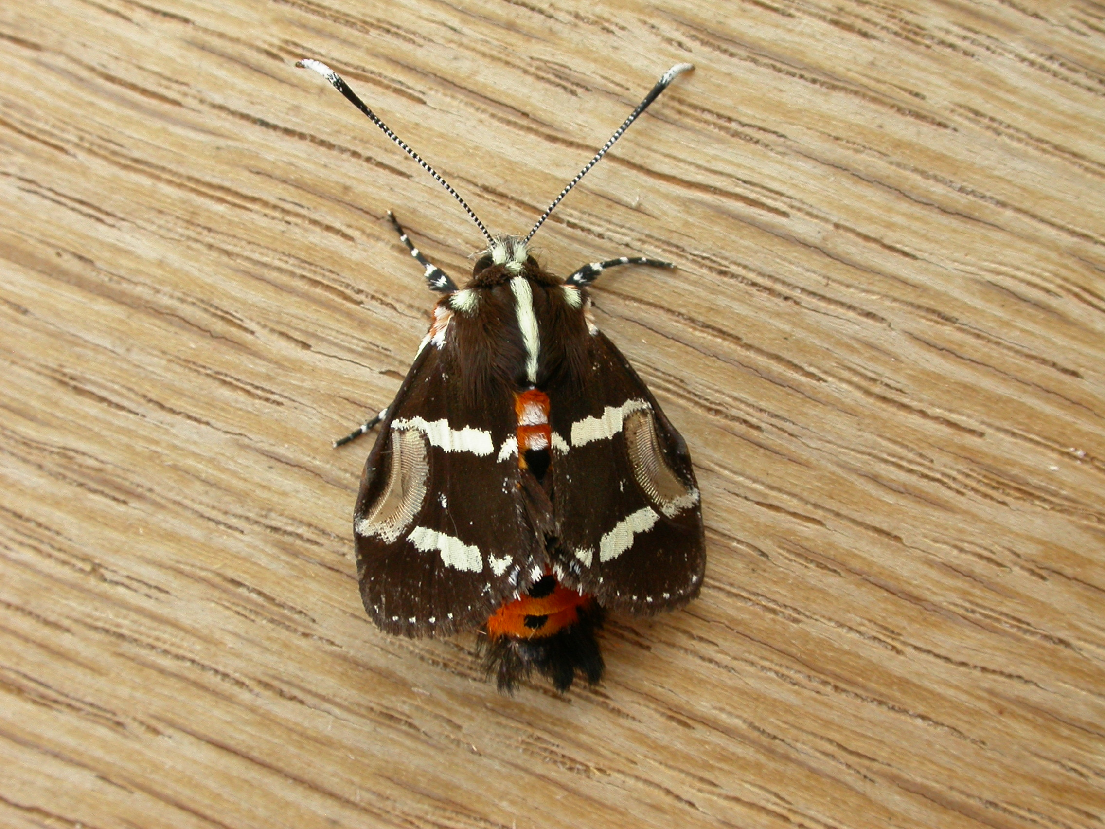 Hecatesia fenestrata Boisduval, 1828, male, to MV light, Aranda, ACT, 9.00 p.m., 21 November 2010 This is a male Whistling Moth, able to produce a whistling sound with the knobs on the costa of the forewing and the ribbed, scale-free areas just behind the knobs. According to Common, Moths of Australia, it is usually the females (which lack these characters) which come to light.